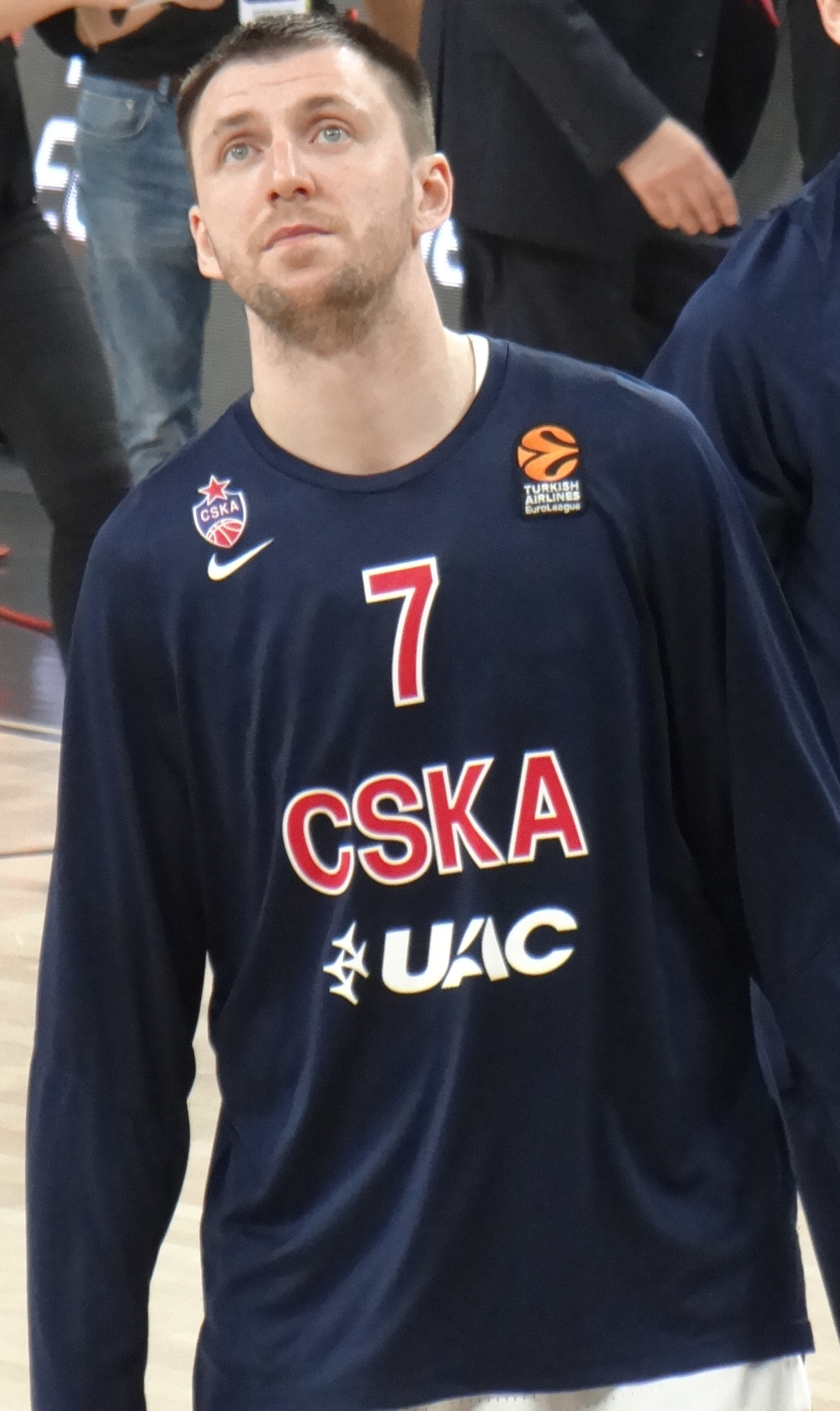 Vitaly Fridzon 7 PBC CSKA Moscow 20171027